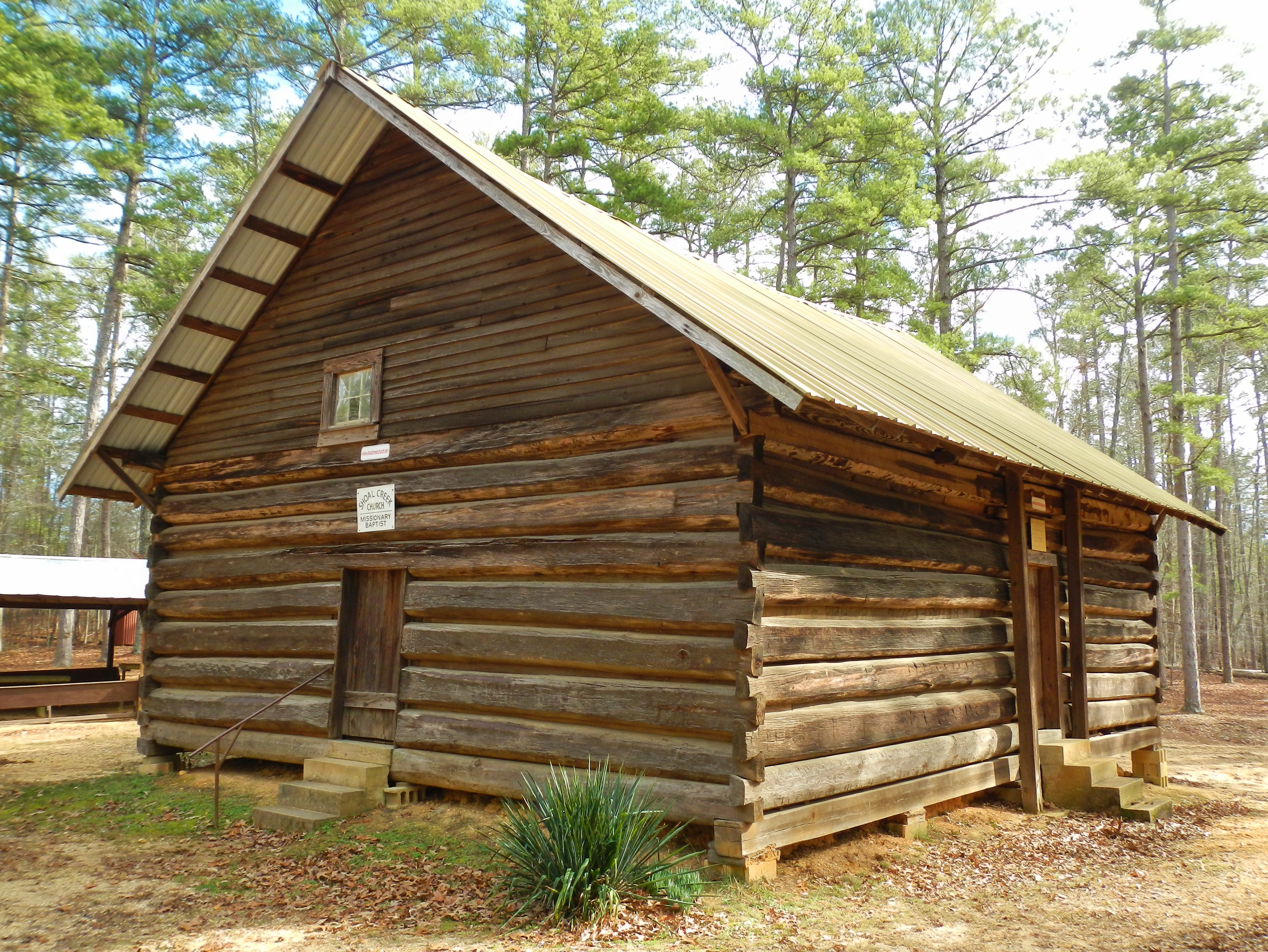 This is a photograph of Shoal Creek Church (NRHP) located in Talladega National Forest near Edwardsville, Alabama.